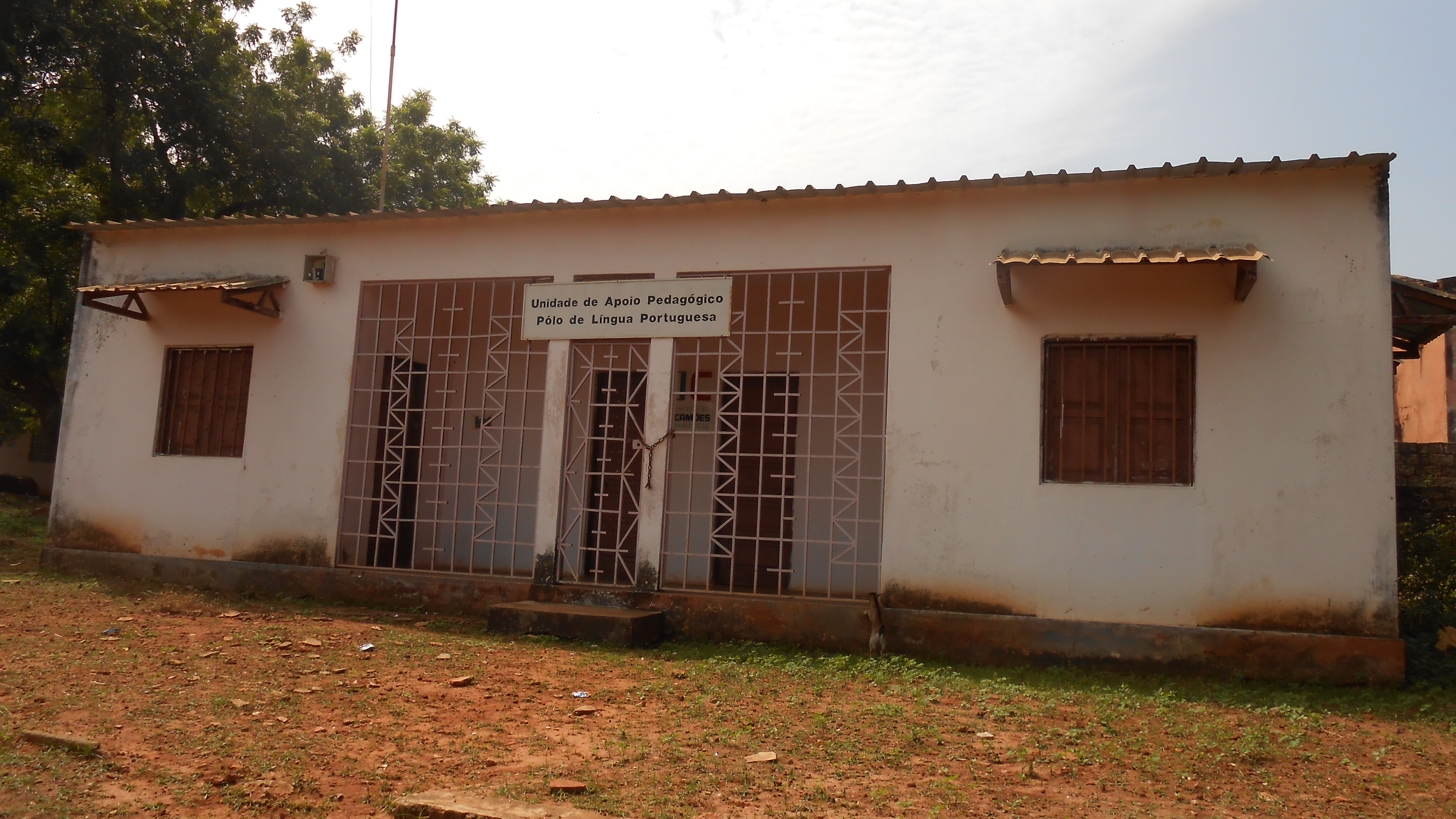 Unit of educational support and delegation of portuguese language of the Instituto Camões in Bolama.